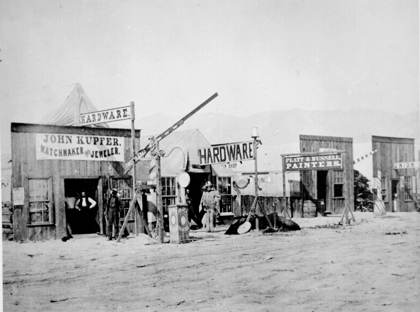 "Street view in Corinne, Boxelder Co., Utah." Close-up view of several shops. By Jackson, 1869.